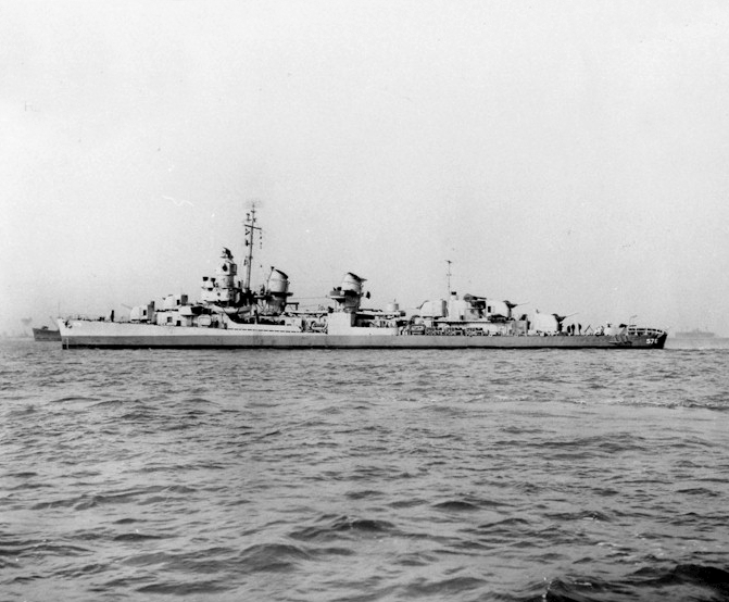 Broadside view of the U.S. Navy destroyer USS Murray (DD-576) off Mare Island, California (USA), on 8 January 1945. She was in overhaul at the Mare Island Naval Shipyard from 24 November 1944 until 12 January 1945.